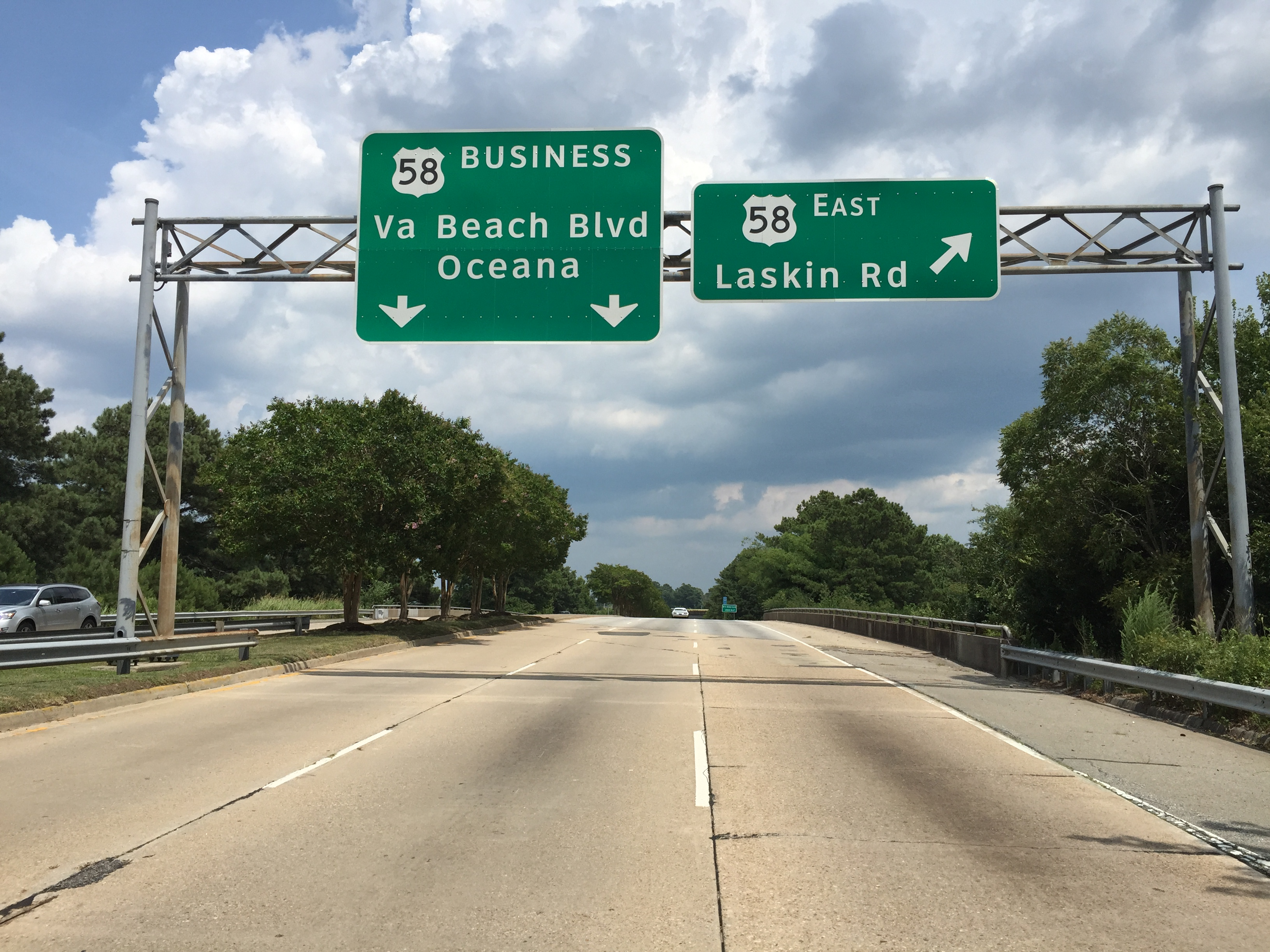 View east along U.S. Route 58 (Laskin Road) at U.S. Route 58 Business (Virginia Beach Boulevard) in Virginia Beach, Virginia